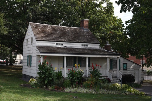 Edgar Allan Poe cottage without vicinity. To take this photo I had to climb on a fence... This photo (like the others shown on the web) pretends a world that today no longer exists. Look at the second photo I took some minutes later: File:Poe-cottage-vicinity.jpg